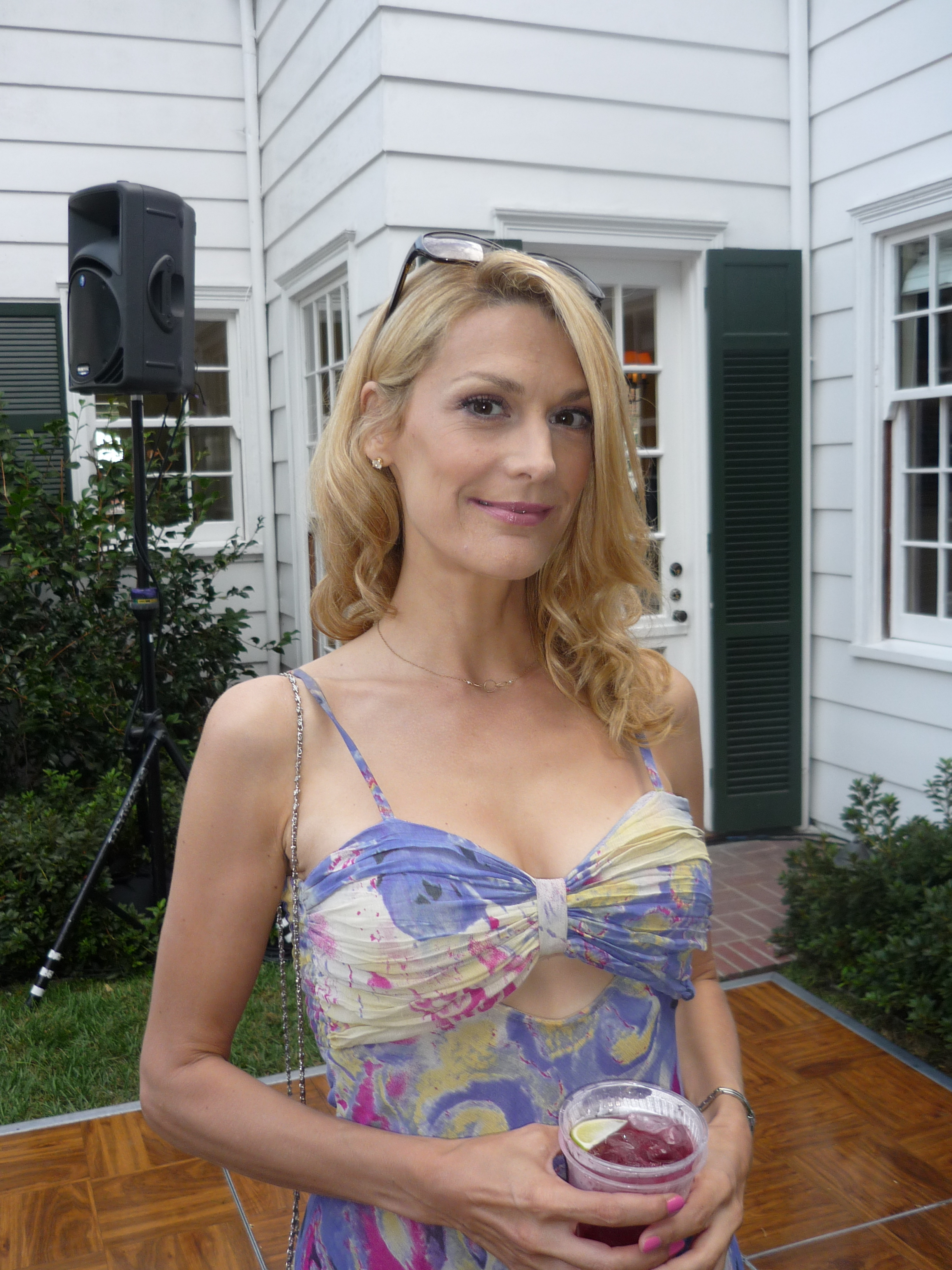 Canadian actress Thea Gill, at the GLAAD summer event.